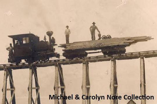 H.K. Porter No 1421 of Nov 1892 at Berners Bay Mining and Milling Co. (Michael and Carolyn Nore Collection)